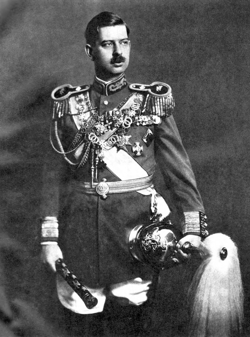 Portrait of Carol II of Romania (1893-1953)